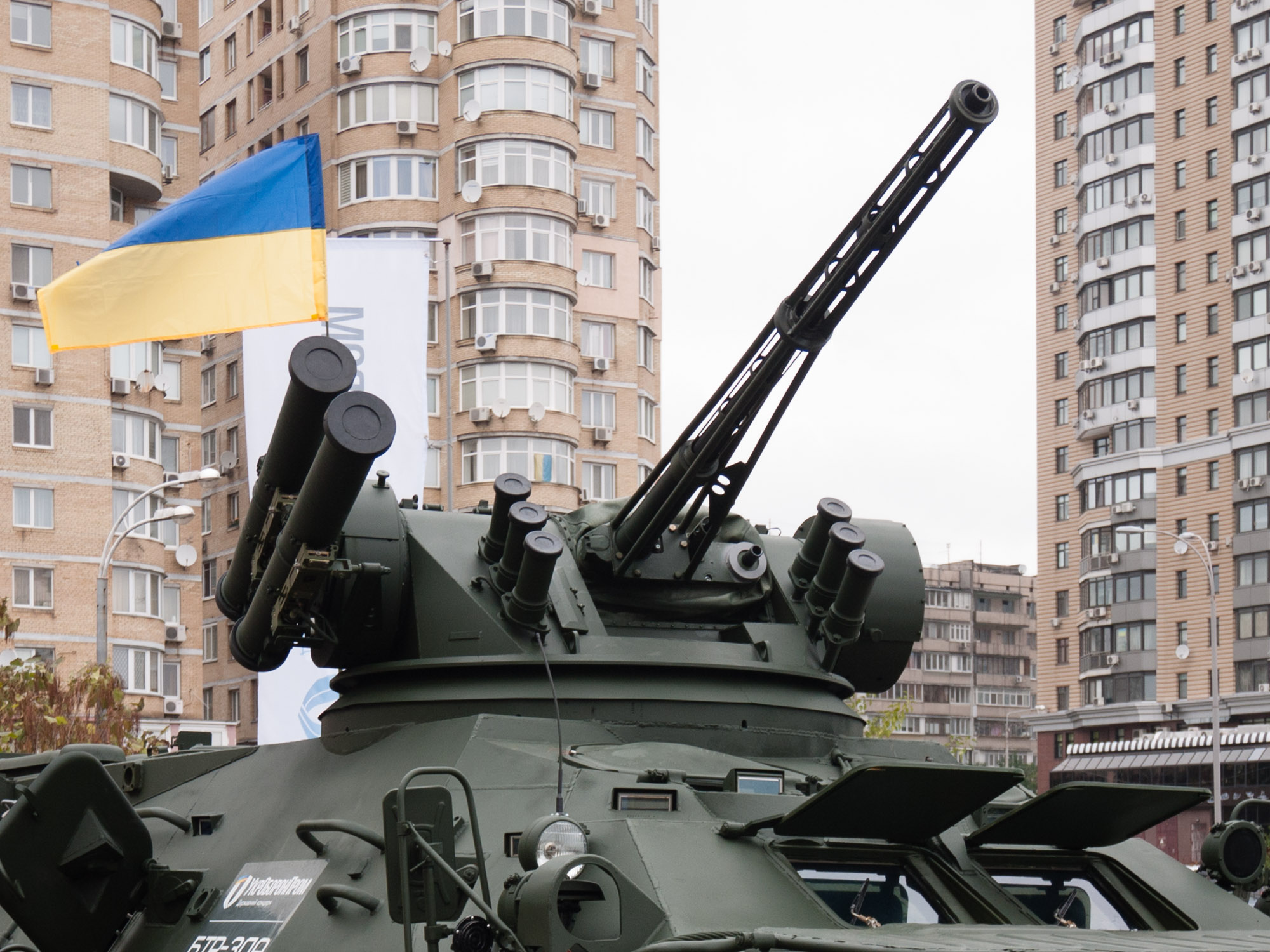 Shturm fighting module (Ukraine)